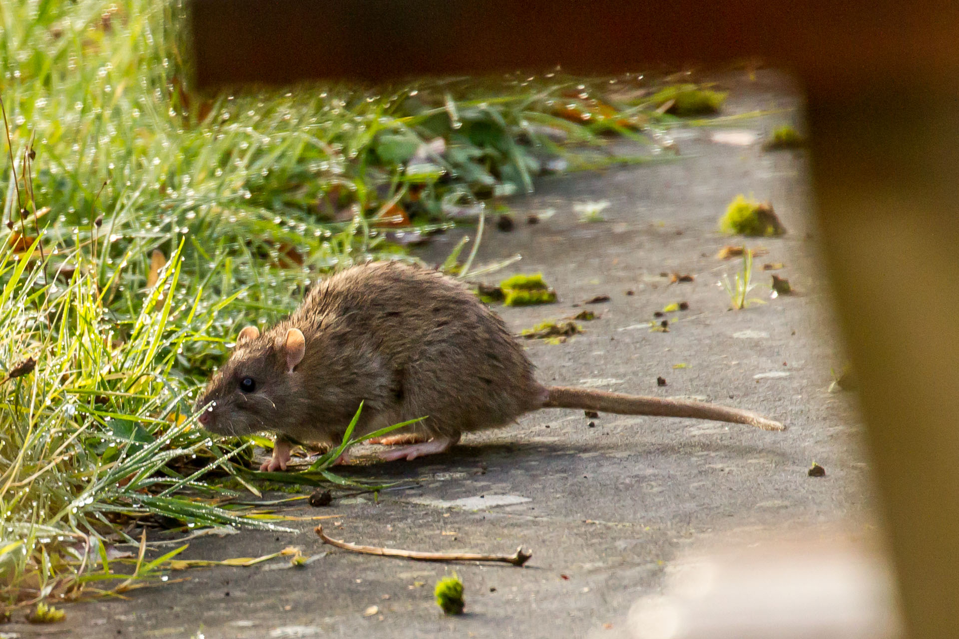 A river rat